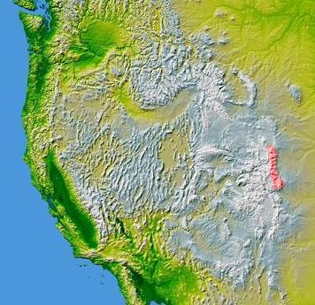 The Front Range is shown highlighted along the eastern side of the Rocky Mountains on a map of the western United States. Based on original public domain image courtesy of NASA. © 2004 Matthew Trump